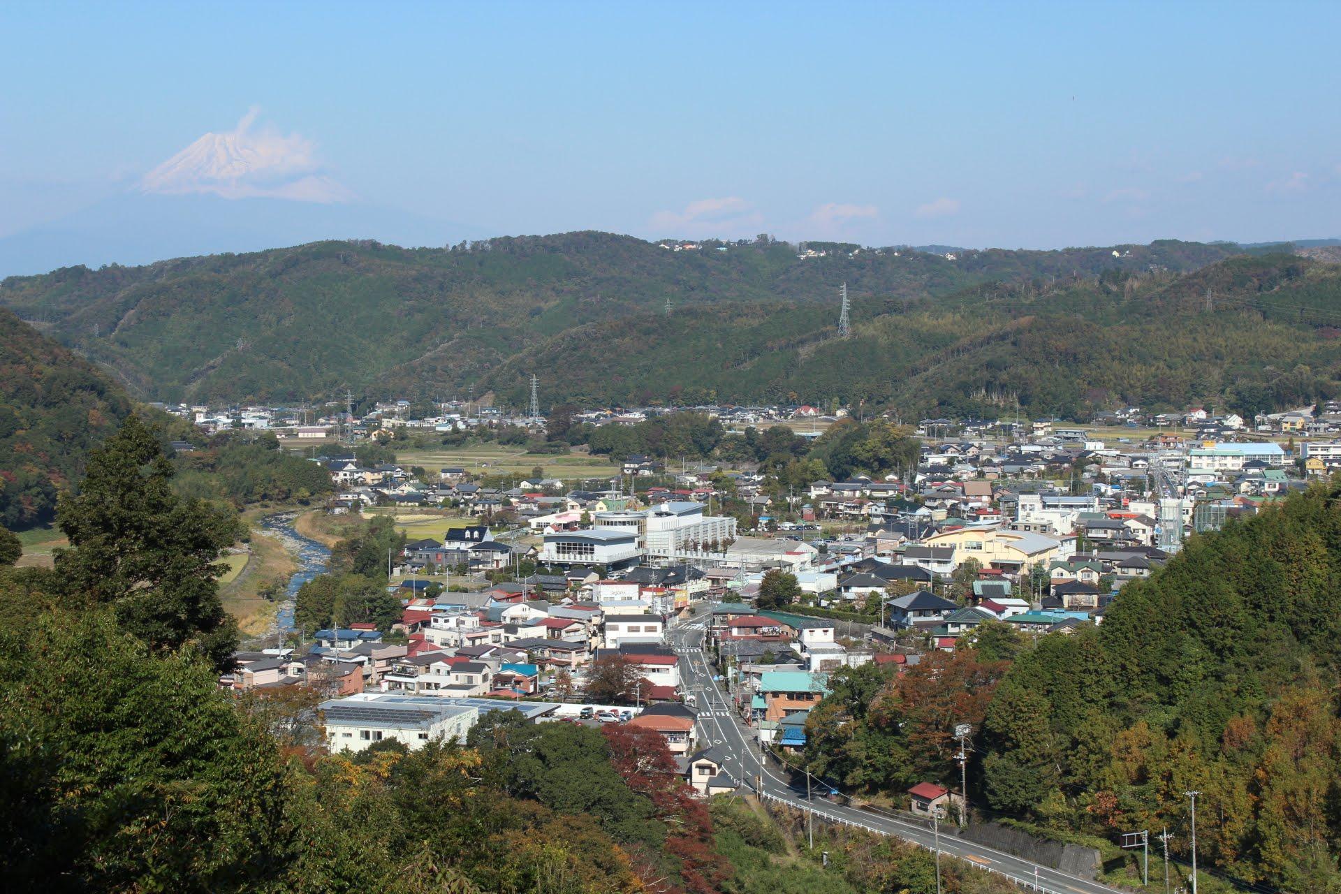 Hatsuma area in Izu, Shizuoka Prefecture, Japan.